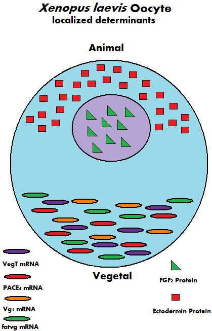 A diagram of a Xenopus laevis oocyte with localized maternal determinants identified